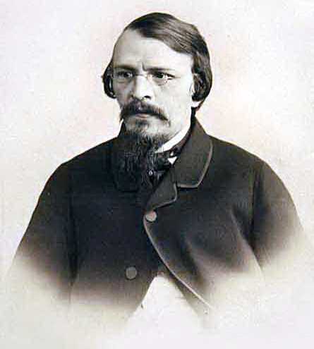 Photo of Mikhail Dostoyevsky (1820-1864), publisher, writer and translator.